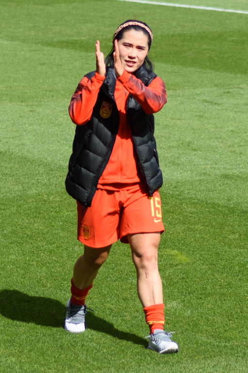 FIFA Women's World Cup 2019; Song Duan after the match against Germany